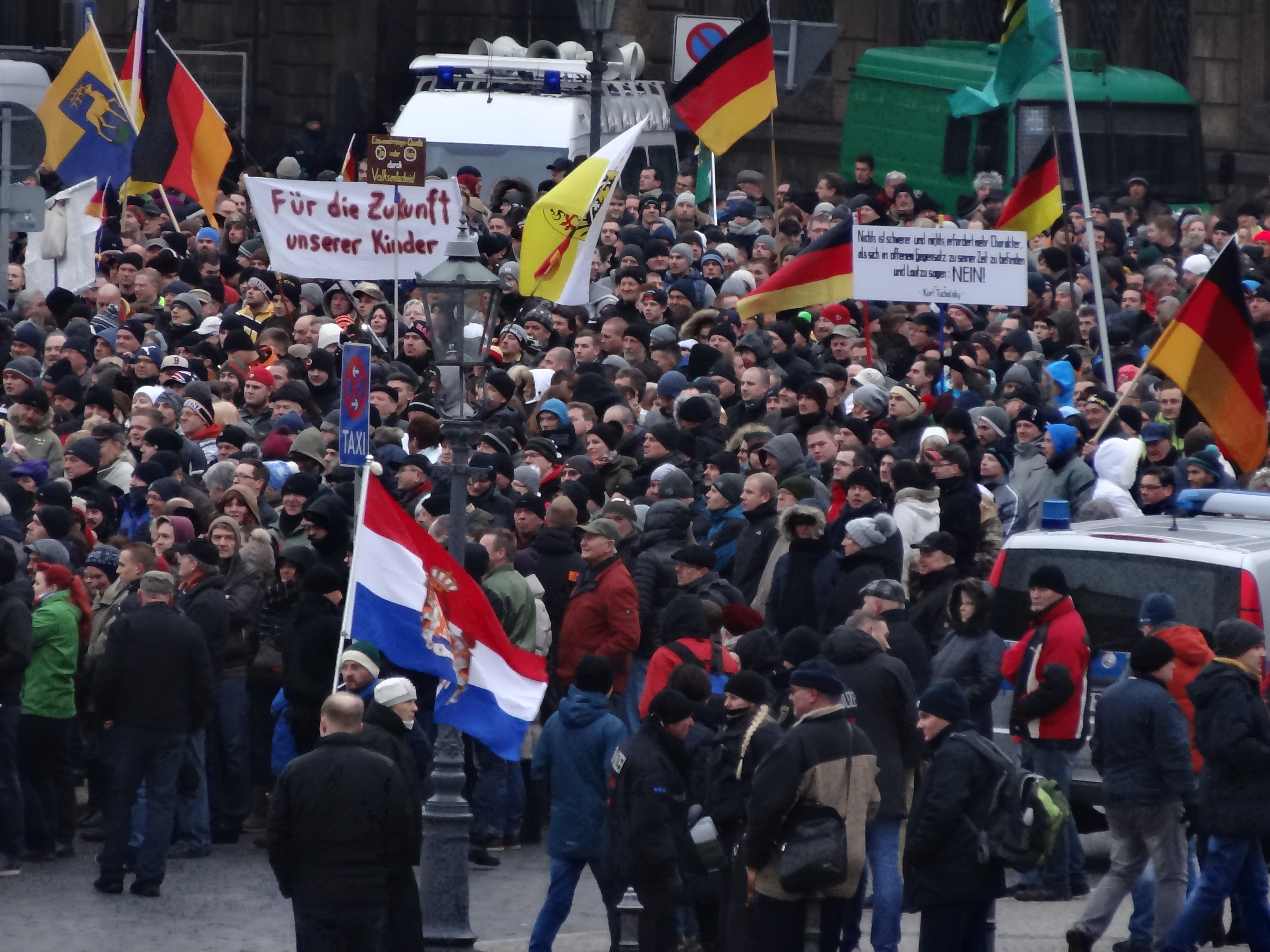 Around 25,000 - 15,000 demonstrators are here for many political themes in Germany. The first time, they demonstrate under the sunlight. The leftwing demonstrators become quiet after 10min and were hearing the speeches by PEGIDA with interest or turned on the music.